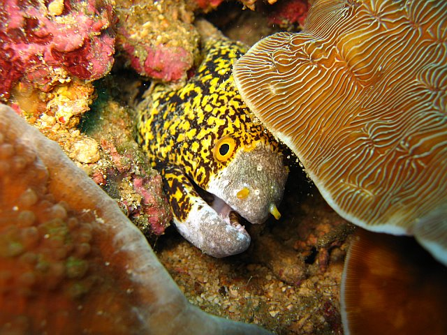 Snowflake Moray Eel. Sabang, Philippines. April 2006.